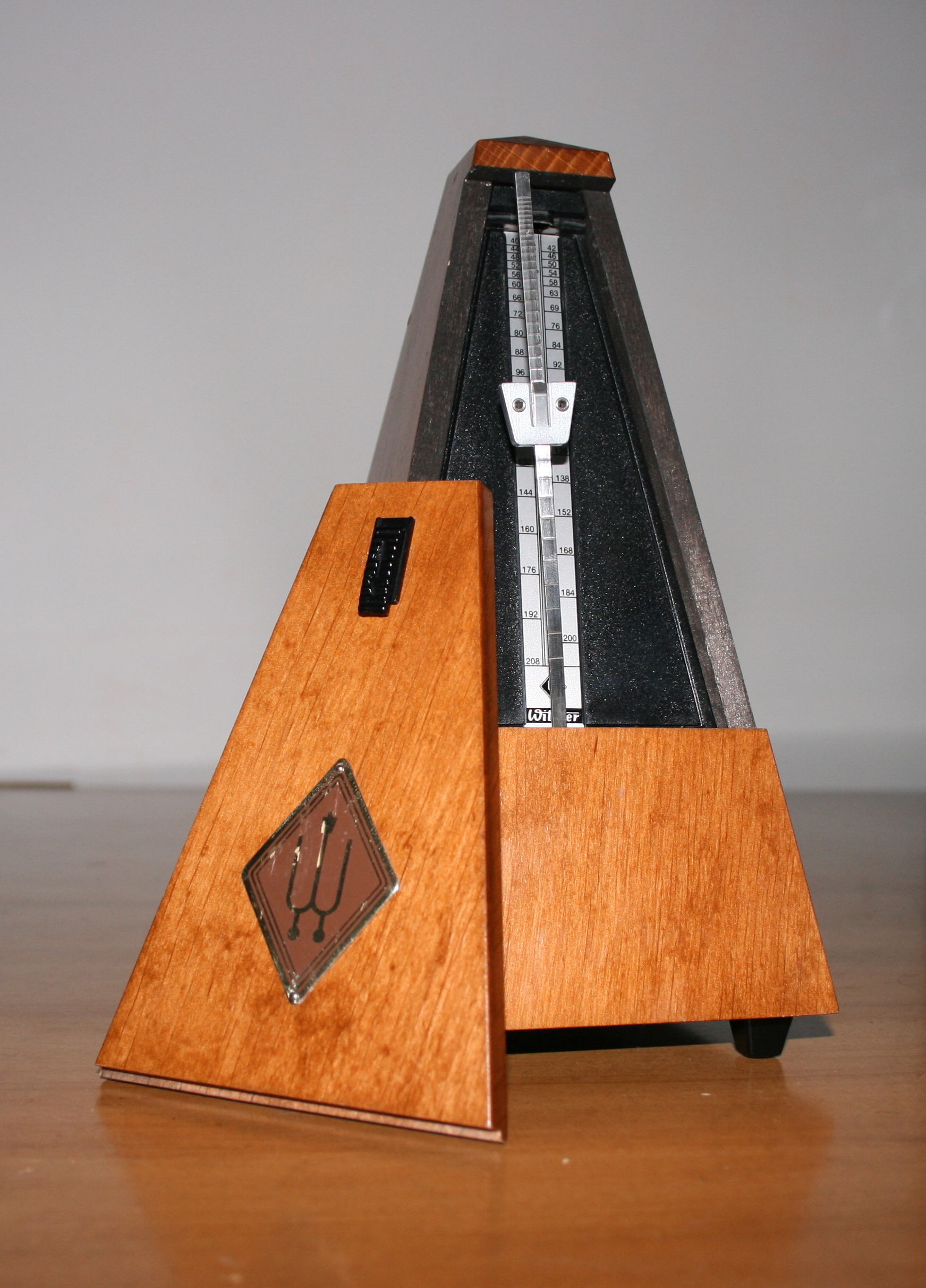 A Metronome, made in West Germany.